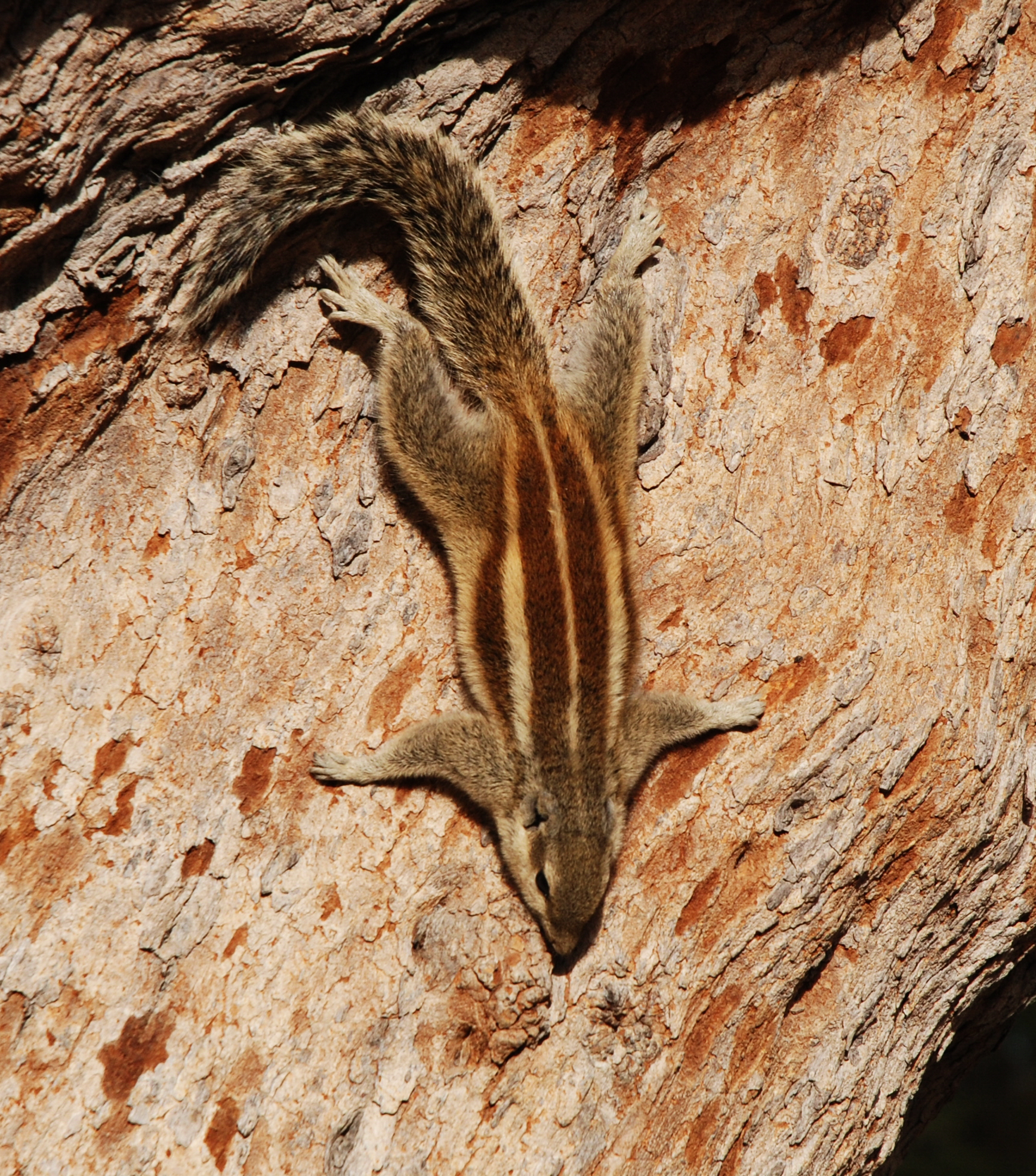 Northern Palm Squirrel (Funambulus pennantii) in Delhi, northern India